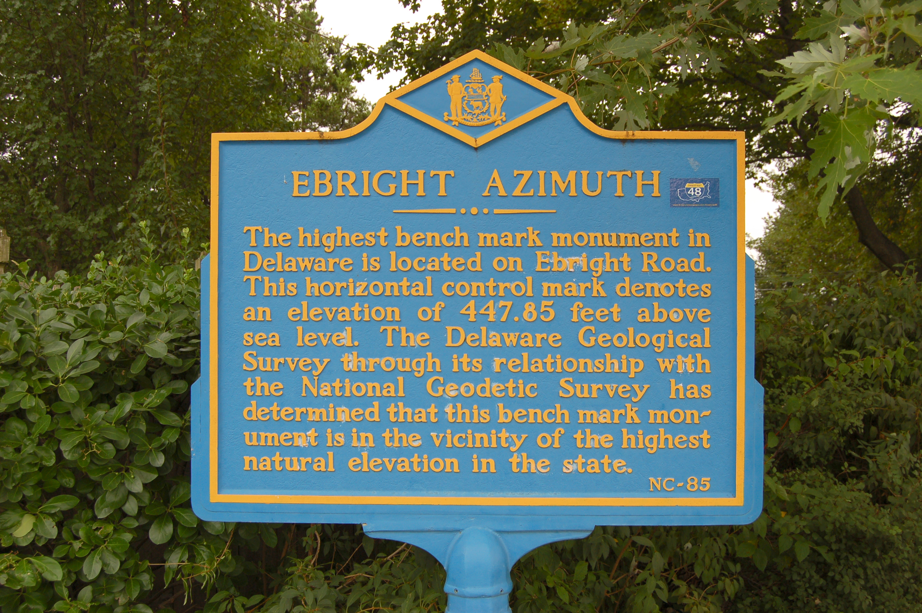 A photograph of the sign marking the Ebright Azimuth in the U.S. State of Delaware, the highest natural point of elevation in the state at 447.85 feet above sea level. The actual point is across the street (not pictured).